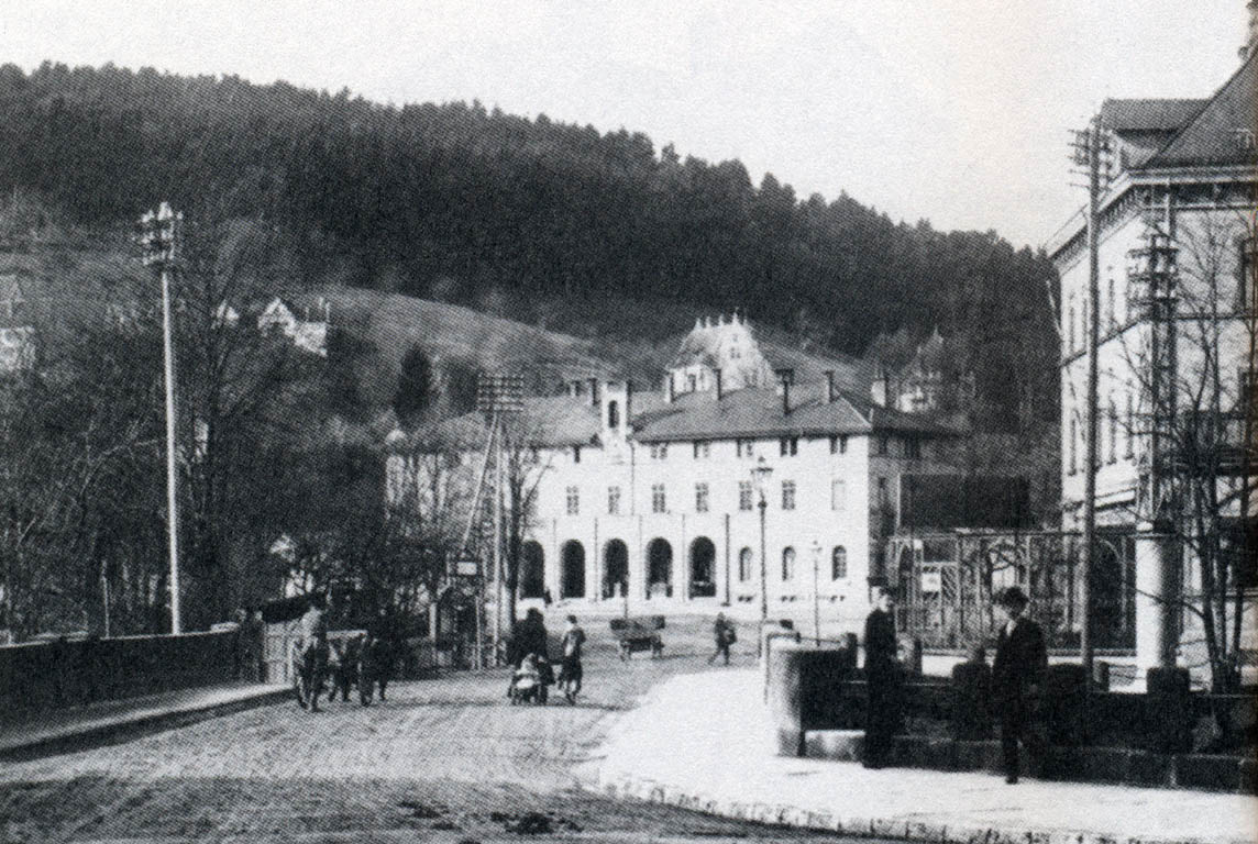 Train station in Schwäbisch Gmünd.